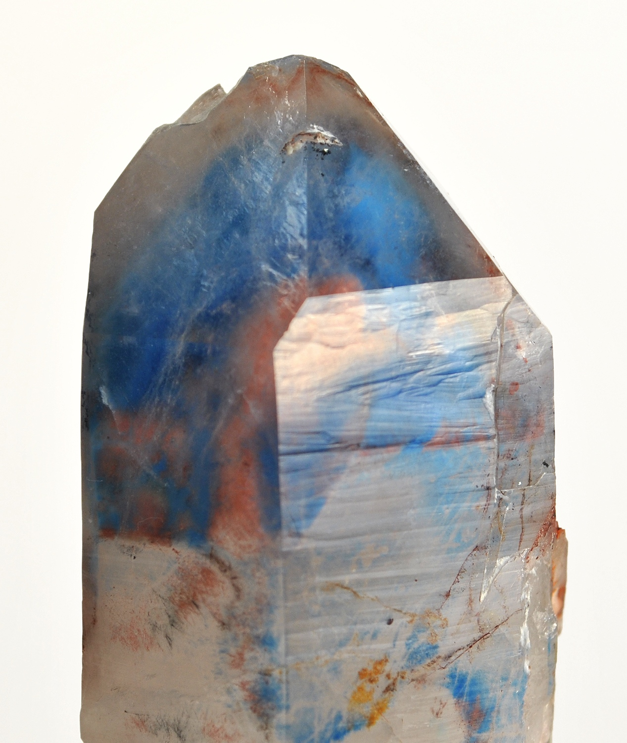 Copper, Papagoite, Quartz Locality: Messina mine, Messina District, Limpopo Province, South Africa (Locality at ) Size: small cabinet, 7.0 x 3.7 x 2.6 cm Papagoite and Copper included in Quartz Usually, papagoite is dispersed in veils, but in this piece it is extremely concentrated in richness and in color saturation, right at the tip! This is a phenomenal crystal with unusually vivid coloration. The termination is sharp and complete, unusually pristine. Note also the slight wisps of copper inside, dispersed in the zone of deep blue papagoite. A classic, unique to this locality, such crystals are highly desirable in this quality. Papagoite is much rarer, here, than the ajoite inclusions. MUCH better in person, this is one of the sharpest such examples that I expect to be able to offer. It is from new finds in late 2009.